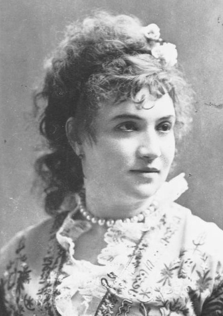 Hermine Bland, nee Steiner (1852-1919), austrian actress in Germany